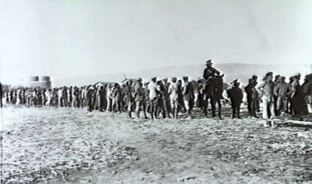 Photograph of Ottoman prisoners captured at Samakh, Palestine.